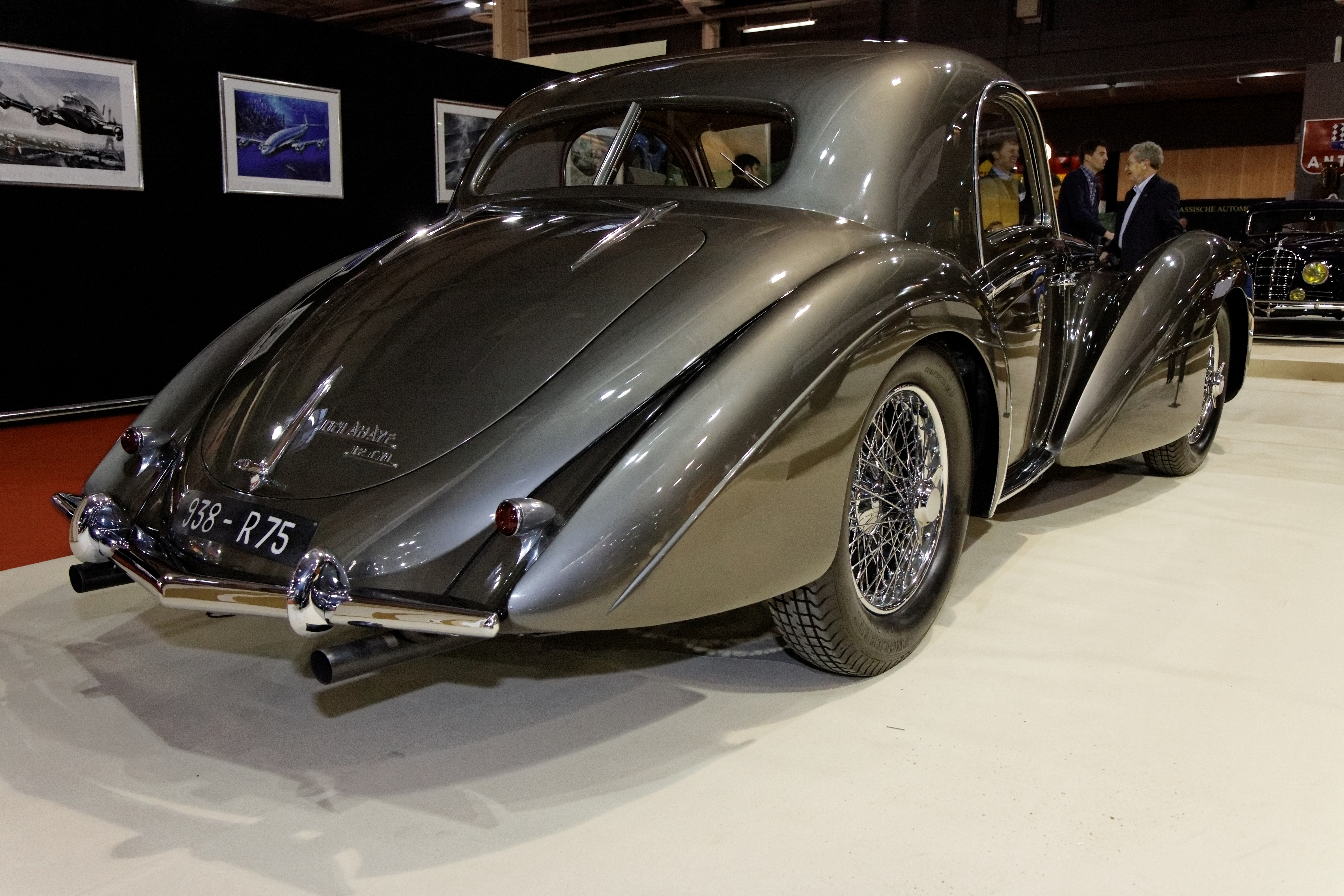 Delahaye V12 type 145